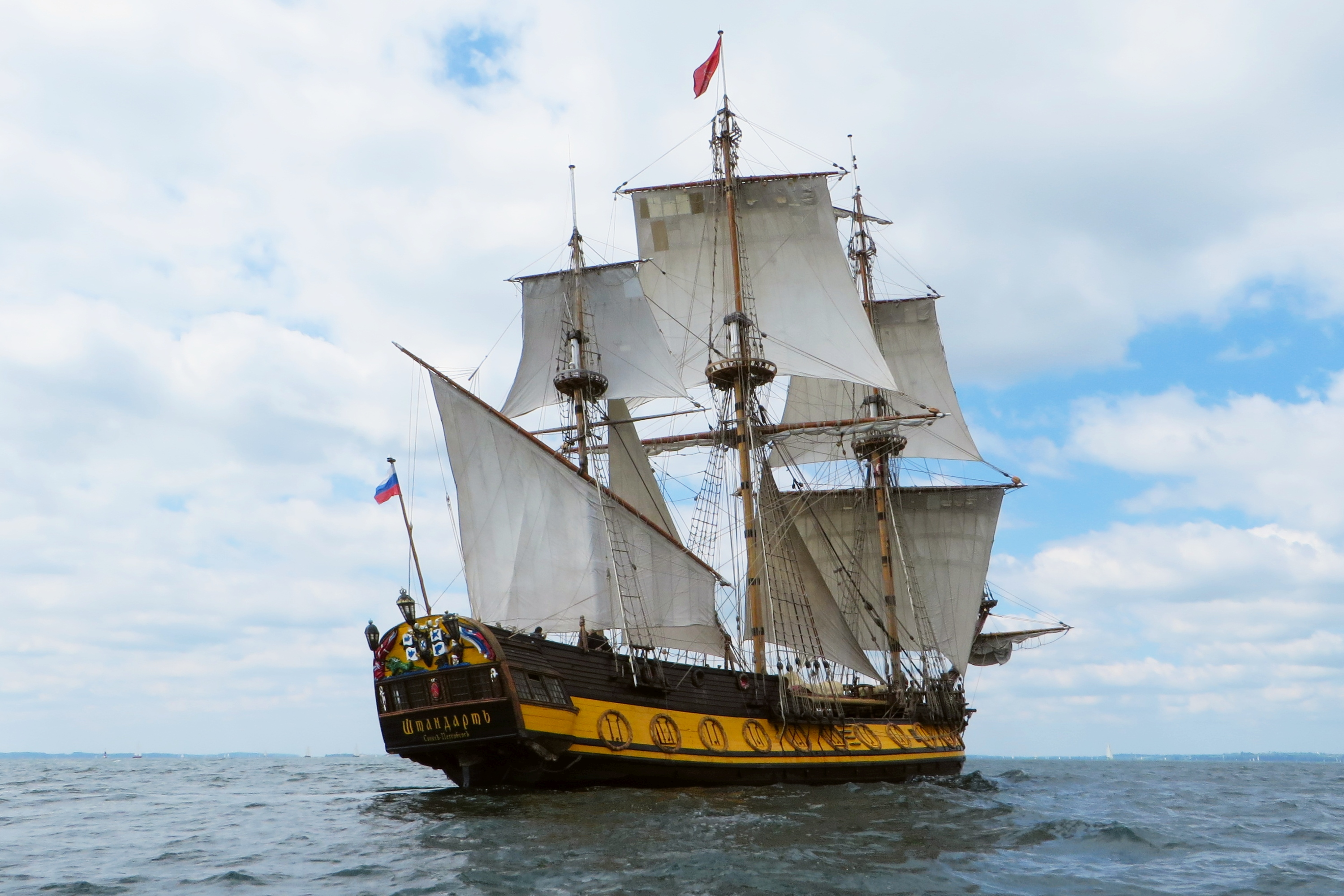 Replica "Shtandart" near Sonderburg/Denmark